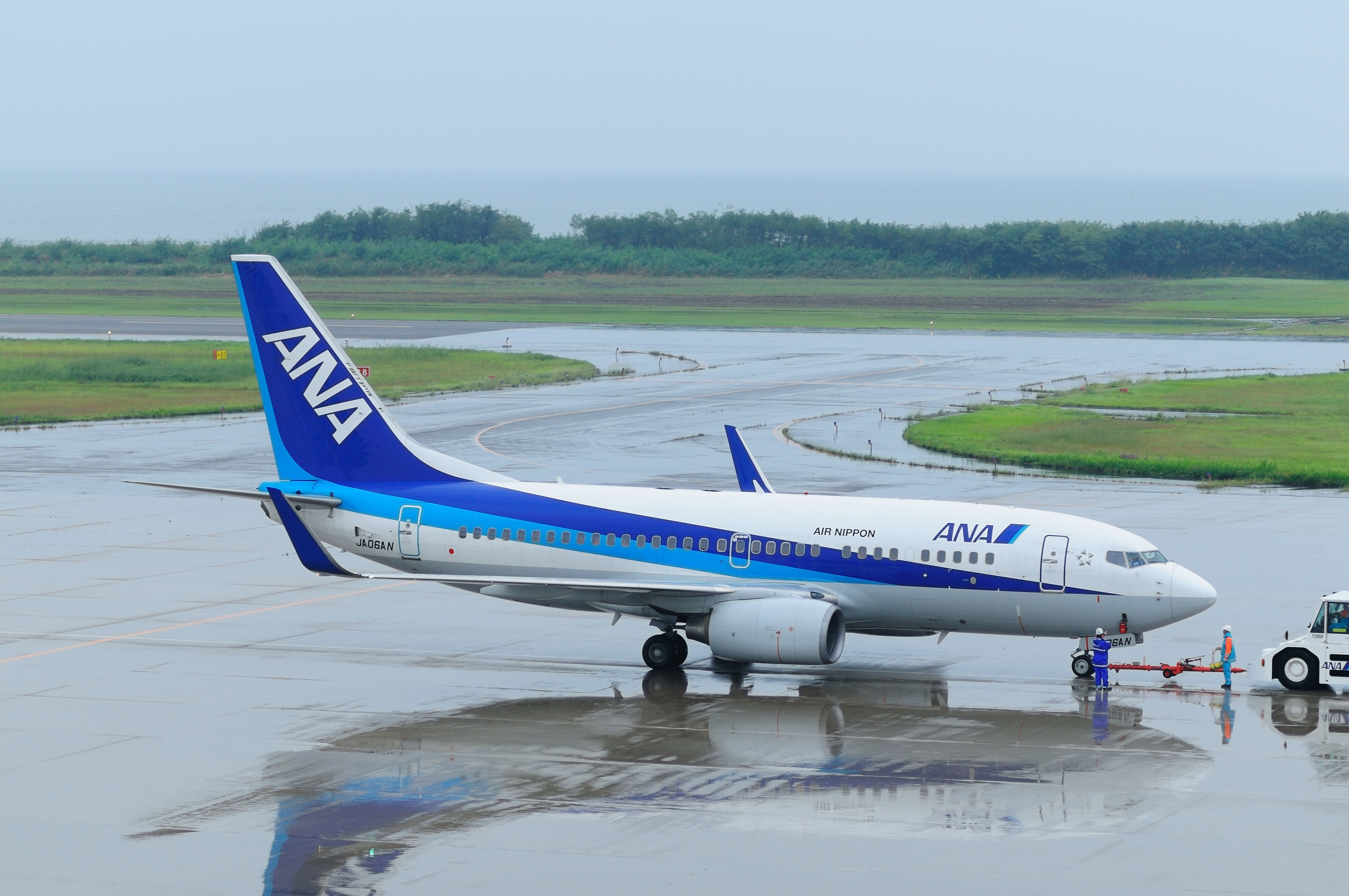 Air Nippon Boeing 737-781 Winglets (JA06AN/33876/1992)